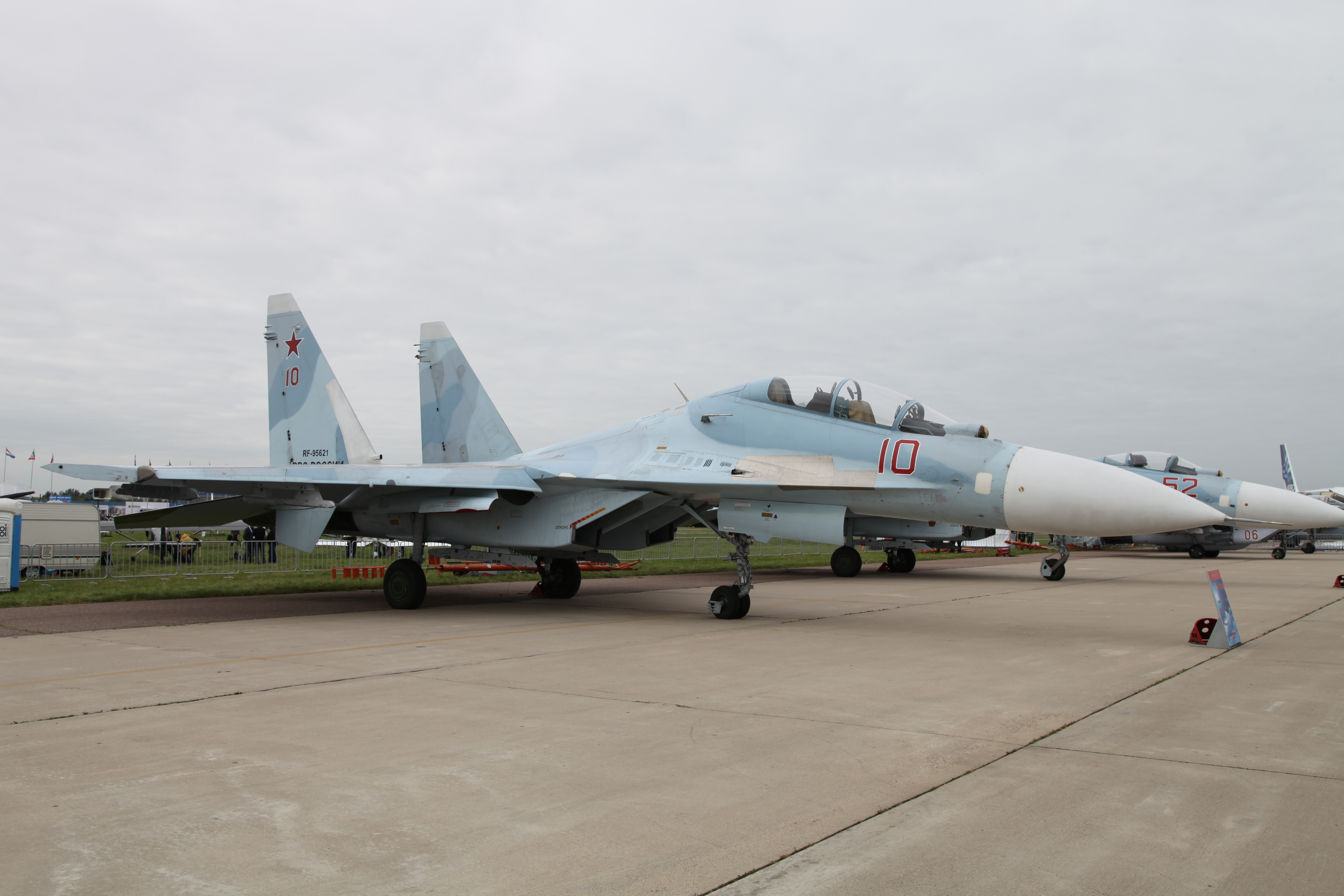 Su-30M2